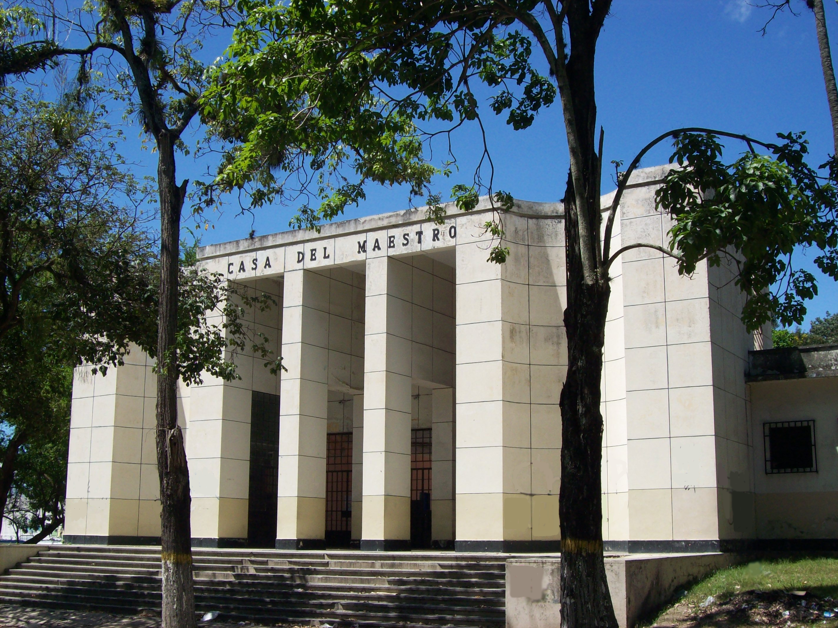 Master house in San Felipe, Yaracuy state. Venezuela